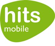 Logo Hitsmobile